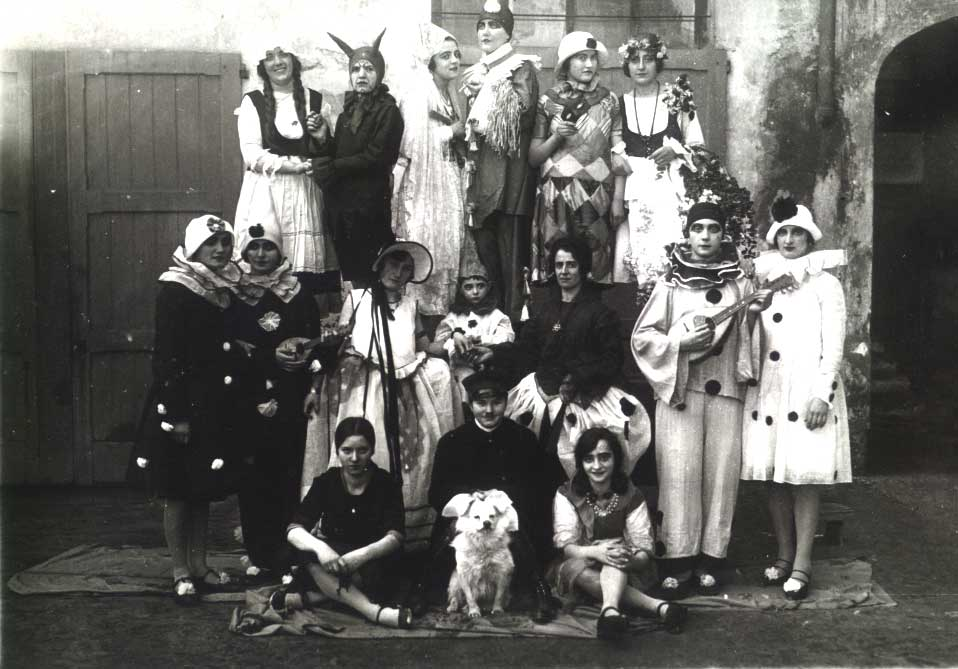 This is the picture of my grandmother carnival when she was young in Milan Italy. The period is between 1914 and 1920.